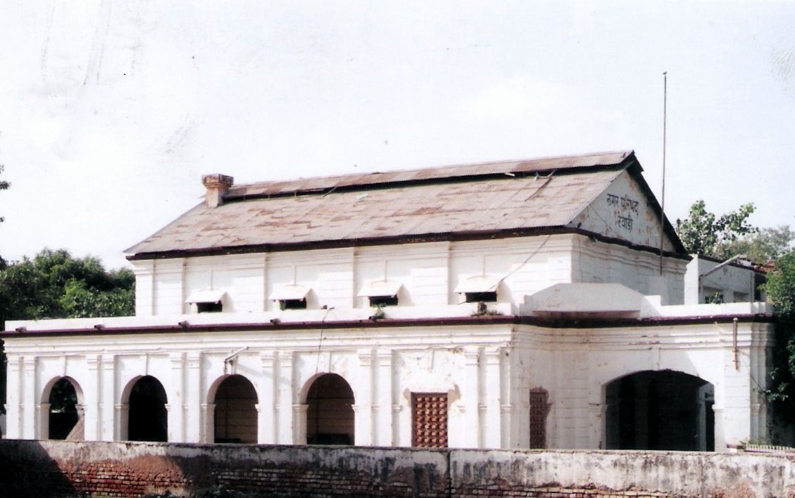 This is the picture of British period 'Town Hall', presently called 'Nagar Palika Bhawan'